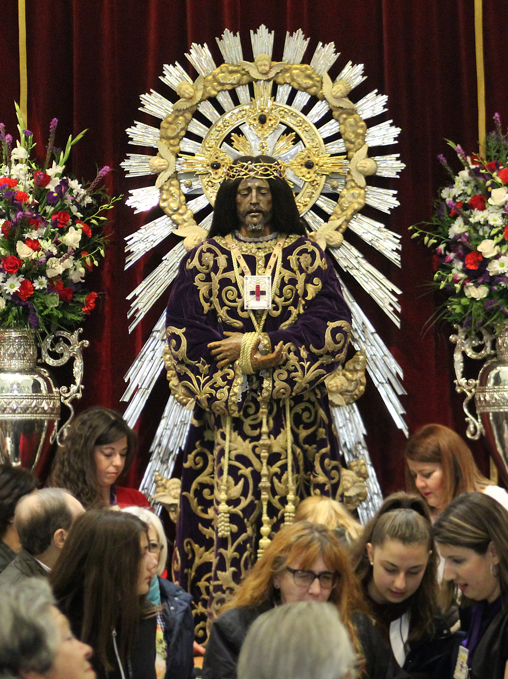 Besapiés a Jesús de Medinaceli 2019 Créditos: Archimadrid / José Luis Bonaño